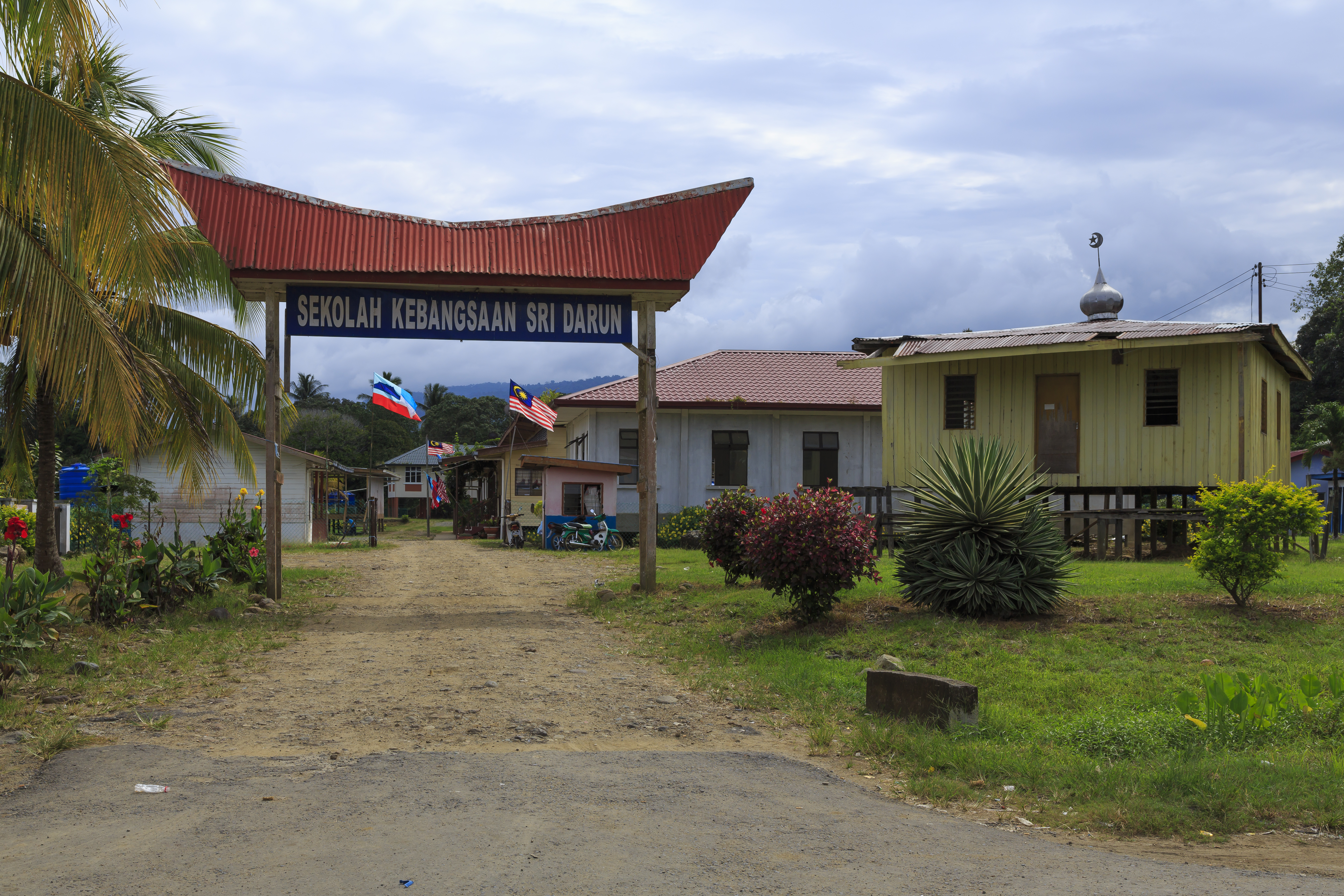 Tungku, Sabah: Sekolah Kebangsaan Sri Darun